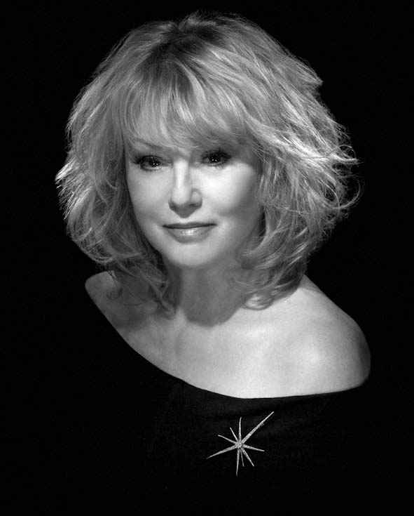 Mylène Demongeot photographed by Studio Harcourt Paris